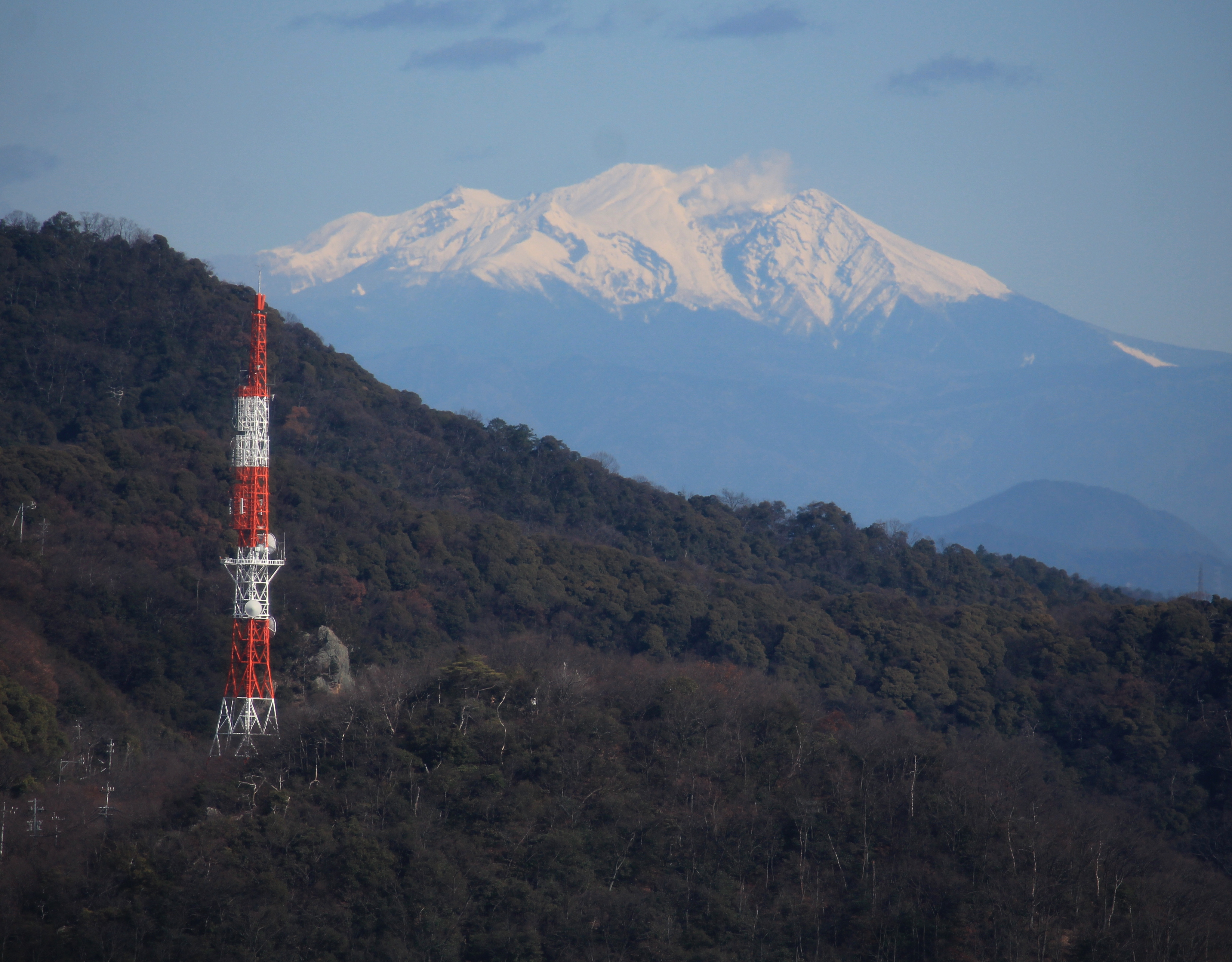 Kamikanozan Tower and Mount Ontake seen from Gifu City Tower 43 in Gifu prefecture, Japan.